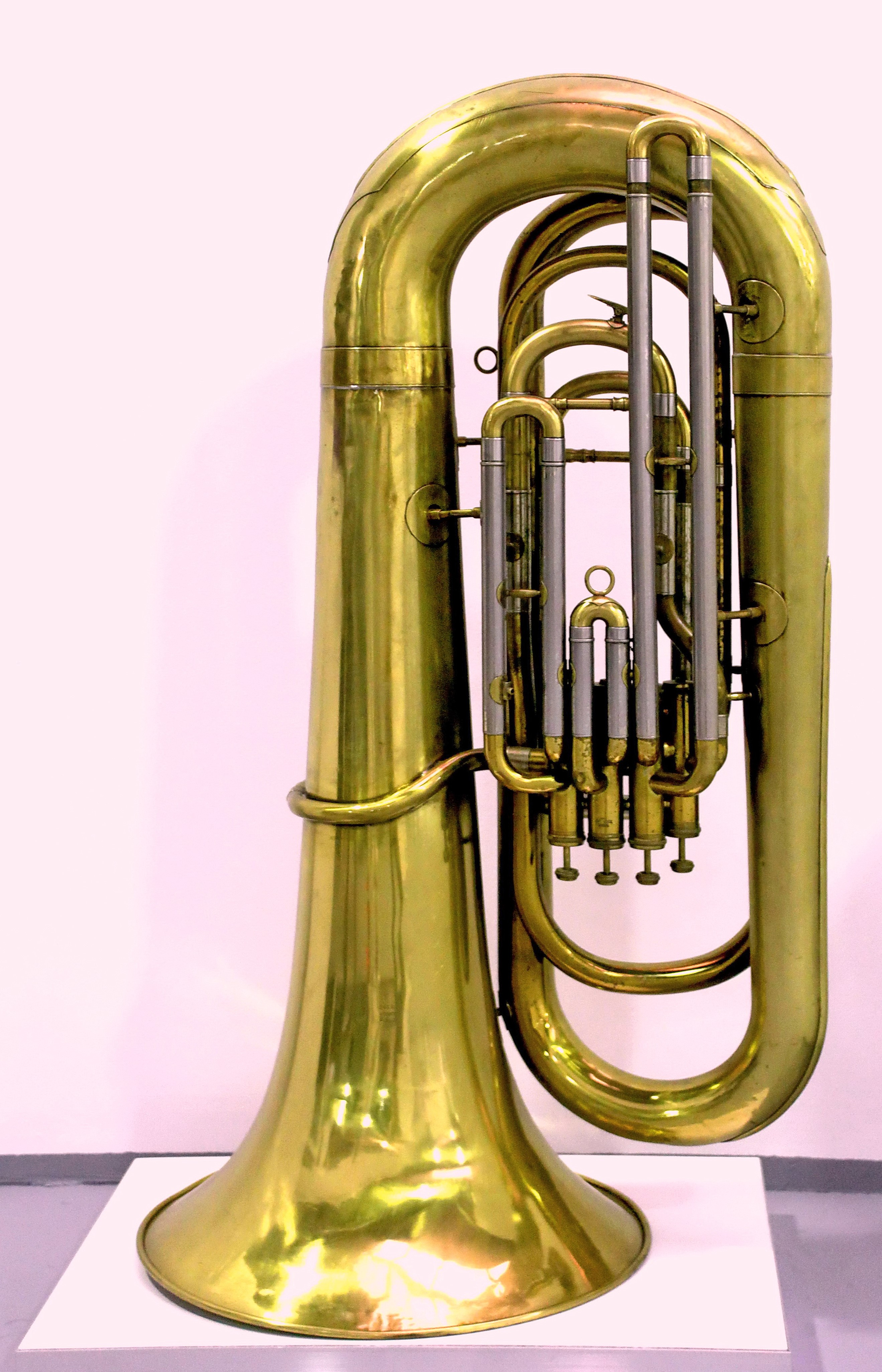 HUG&Co Tuba, Zurich Switzerland from around 1960.